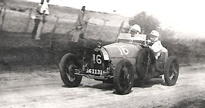 Bugatti Type 39 of race winner Carl Junker contesting the 1931 Australian Grand Prix.